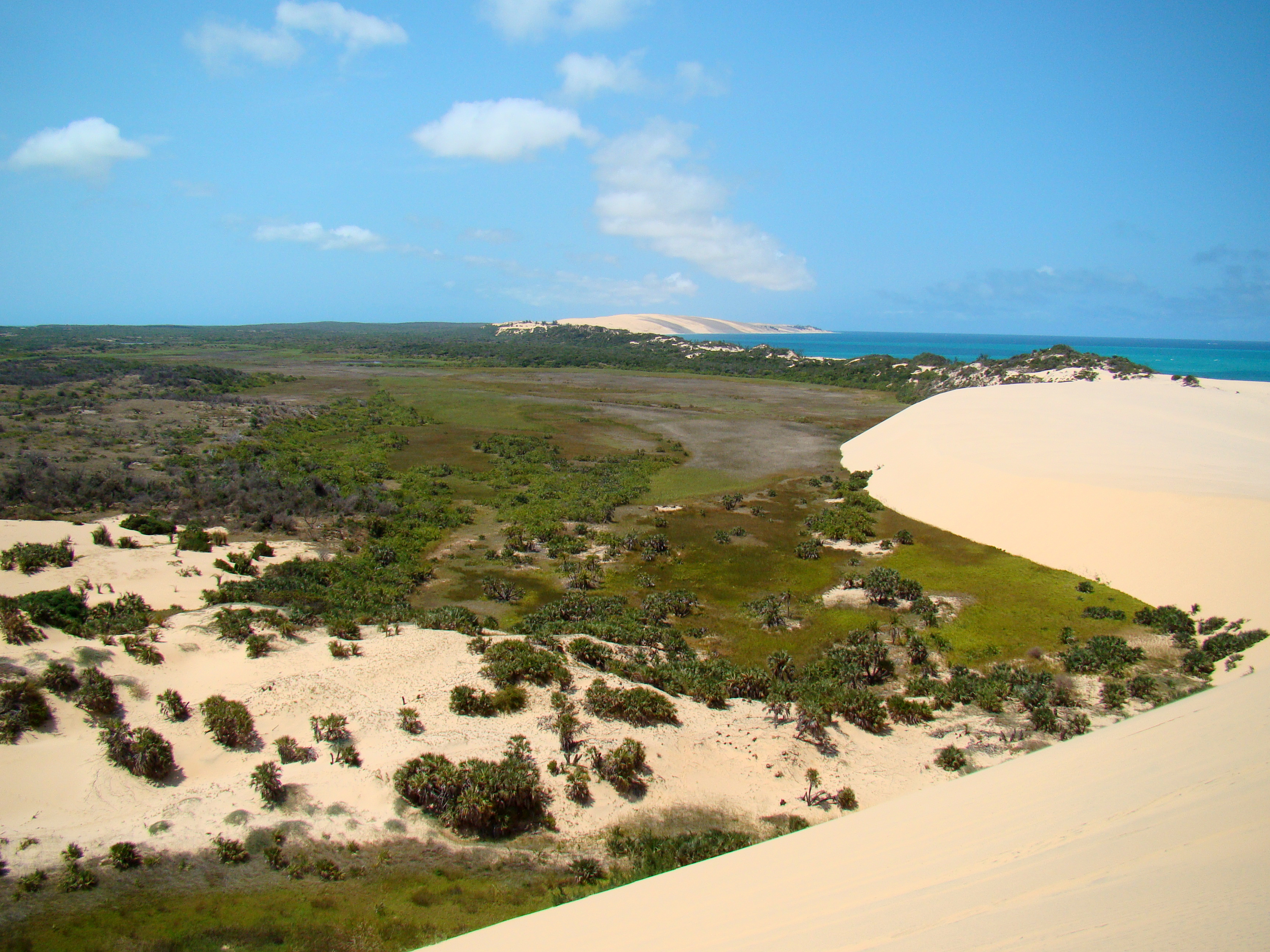 A view from the top of a large dune near the southern end of Bazaruto Island, north towards the east coast. Between the dunes there are pools/lakes with large salt-water crocodiles in them.